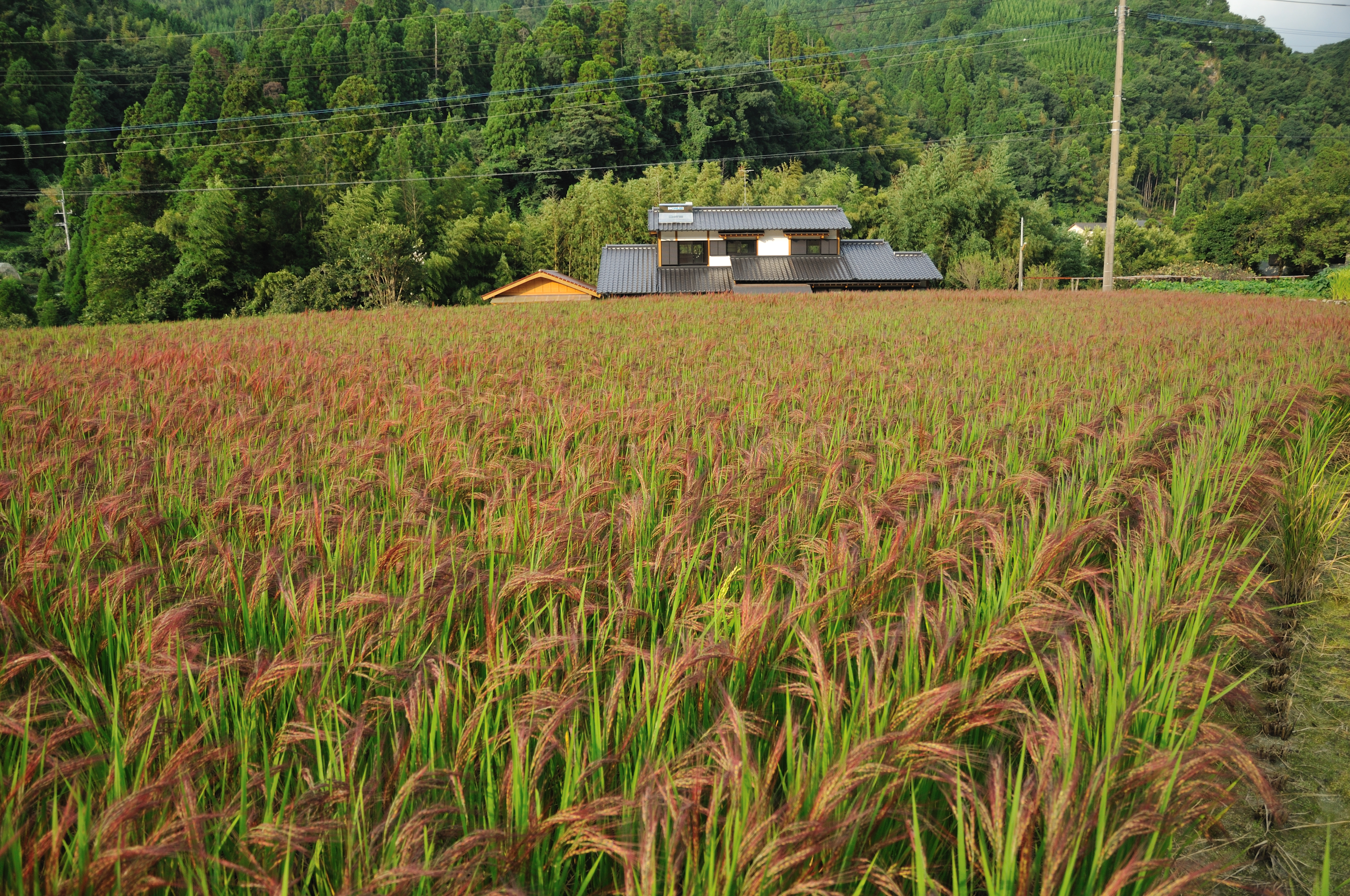 Red Rice Paddy field in Hoshino,Yame,Fukuoka Prefecture,Japan